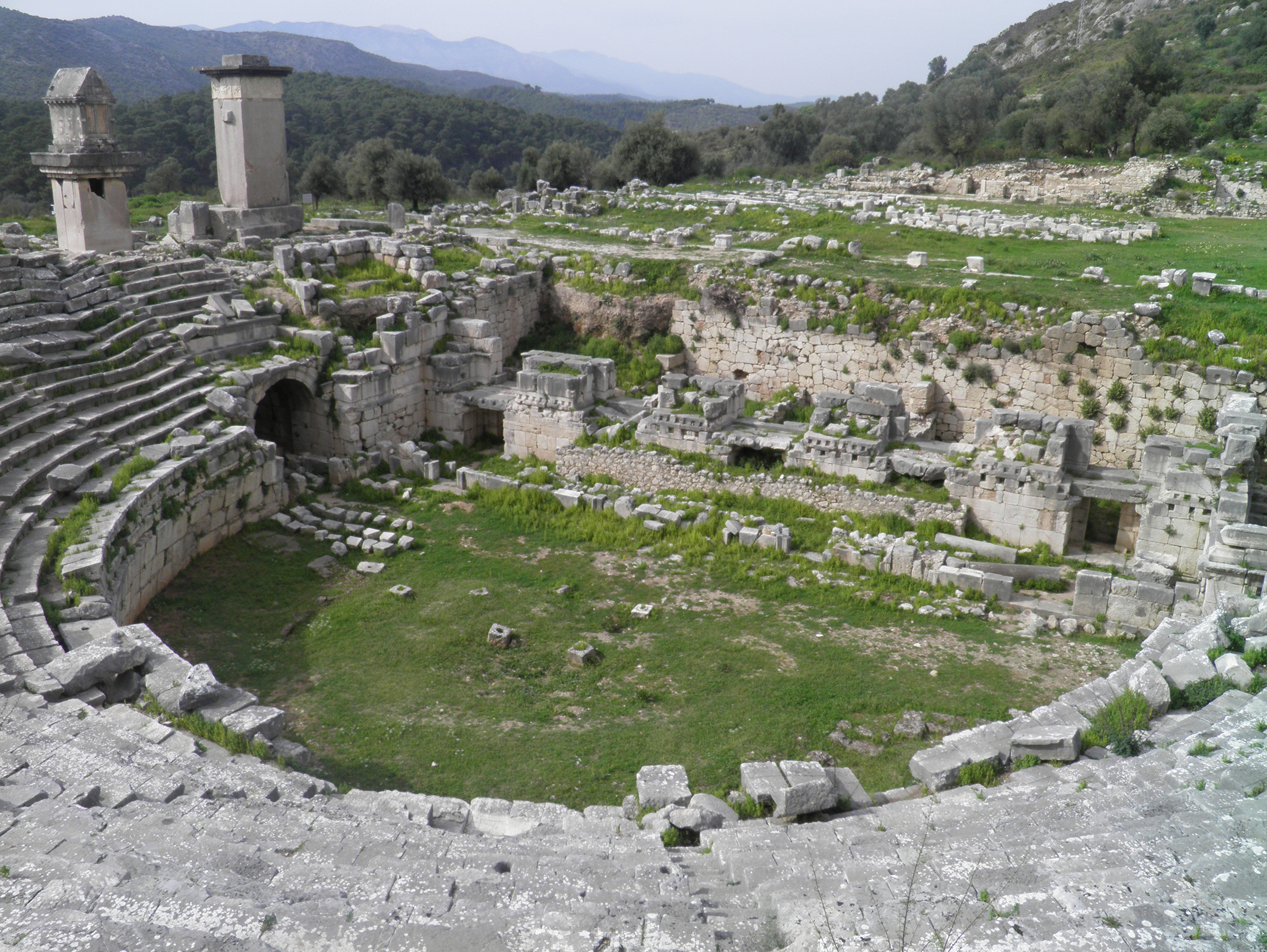 The Roman theatre, built in the mid-2nd century AD, Xanthos, Lycia, Turkey